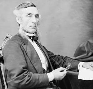 Hon. James Dever, (Senator) b. May 2, 1825 - d. 1904.